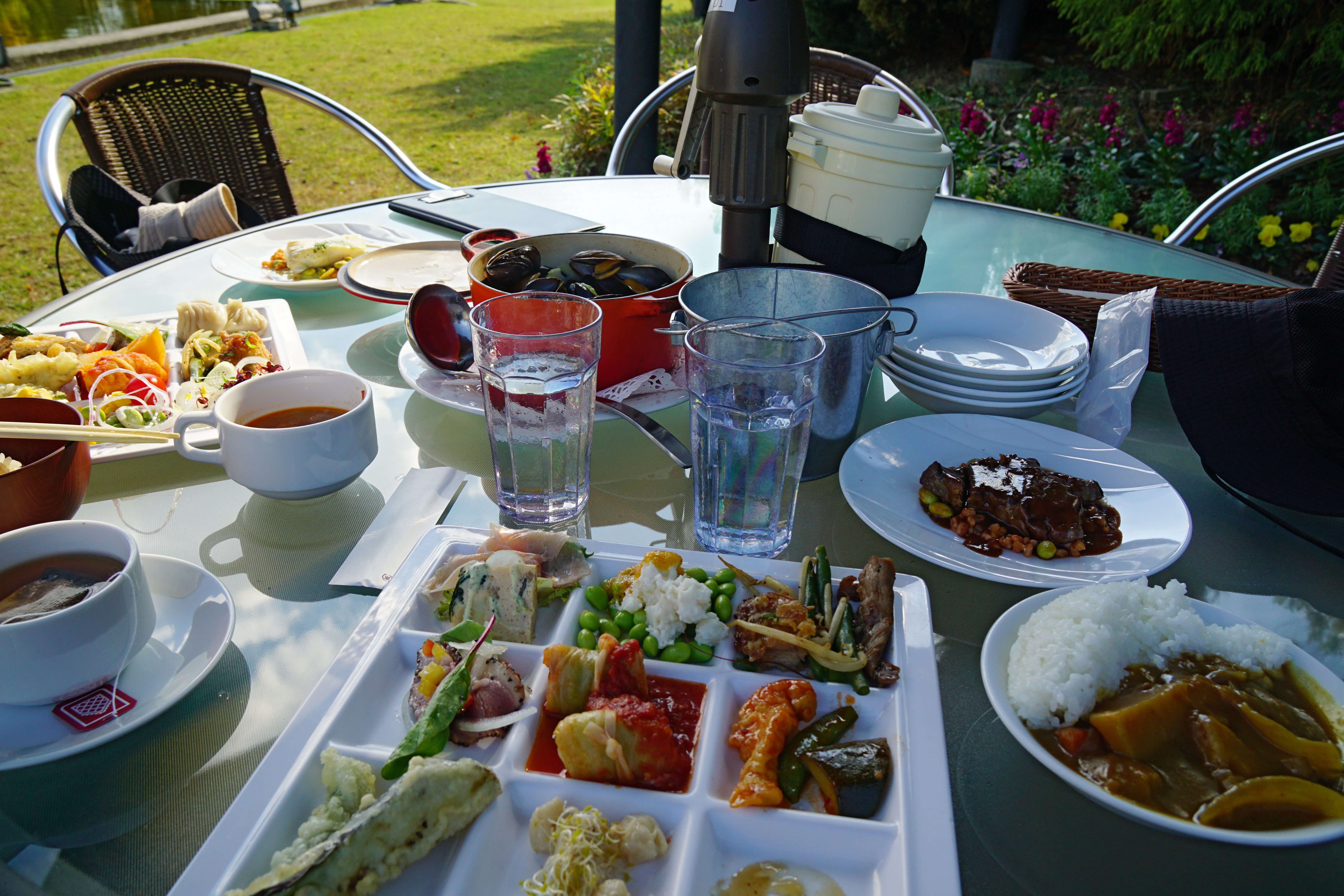 Hattori Ryokuchi in Osaka prefecture, Japan